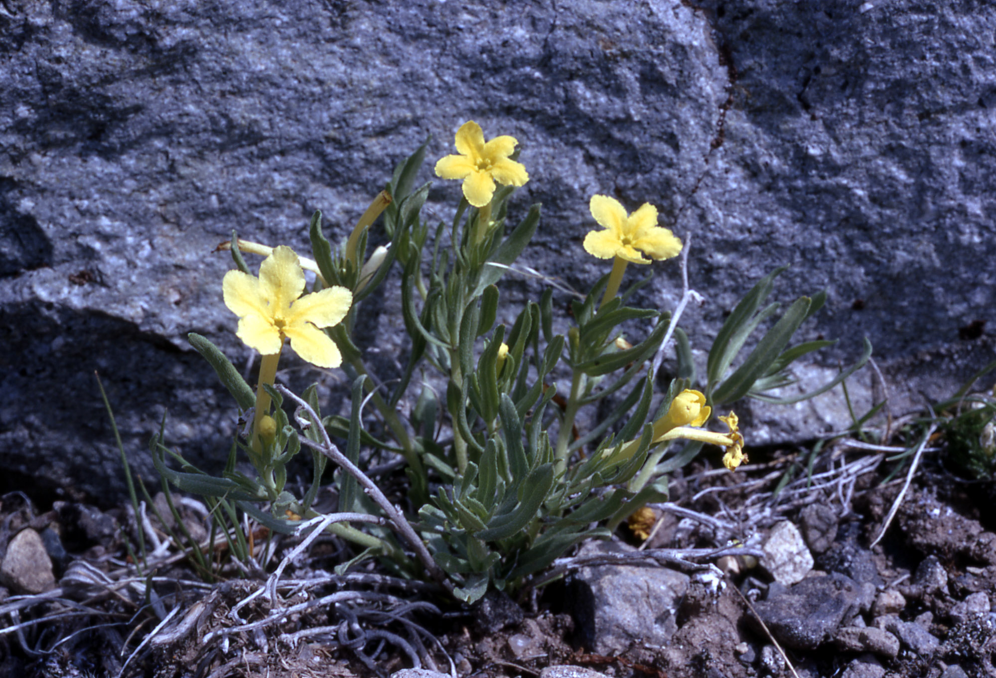 Lithospermum incisum at Yellowstone